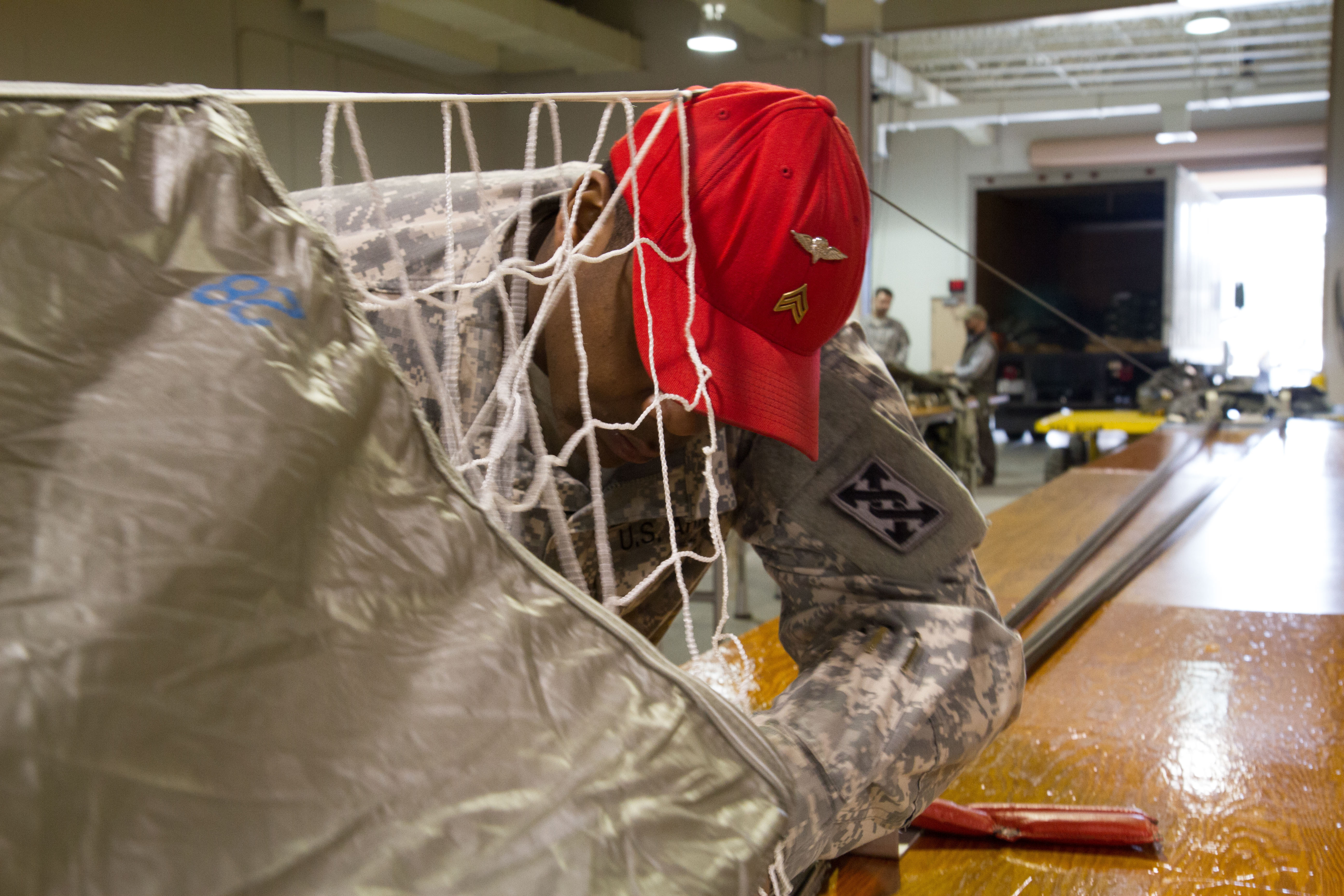 U.S. Army Sgt. Clarence Curry, an Army Reserve parachute rigger with the 824th Quartermaster Company (Heavy Airdrop Supply) inspects an MC6 parachute at Fort Bragg, N.C., March 11, 2013. Each pack will be inspected at least five times before it is cleared for use. (U.S. Army photo by Spc. Jacquelyn R. Slaughter/Released)